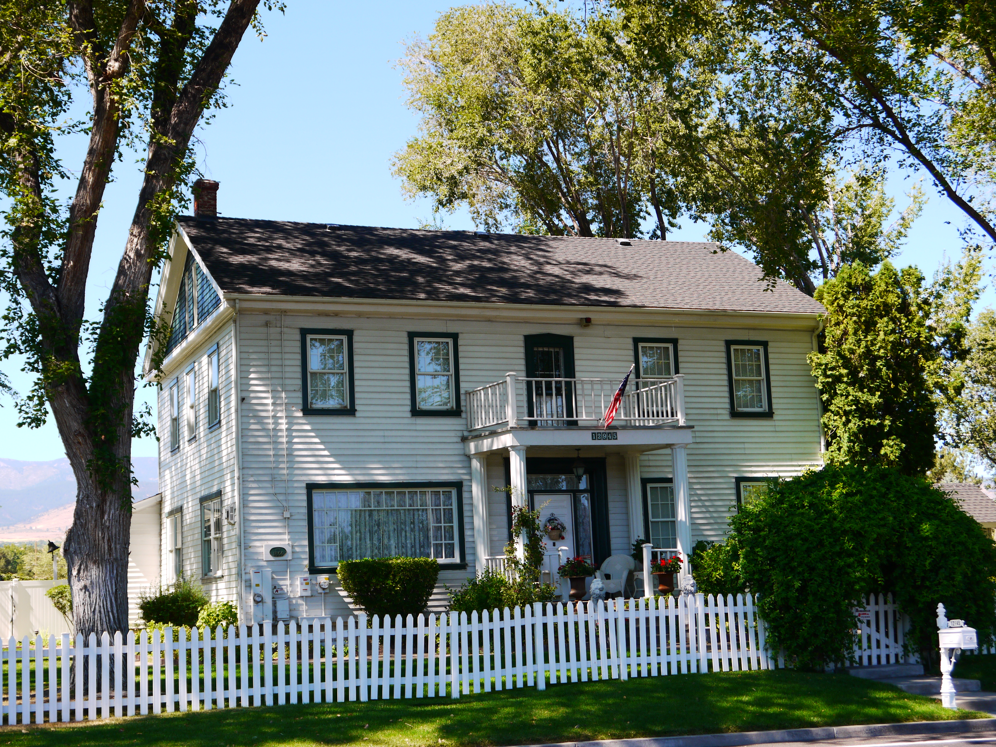 Detailed image of the Damonte Ranch House listed as a Historical Society Landmark